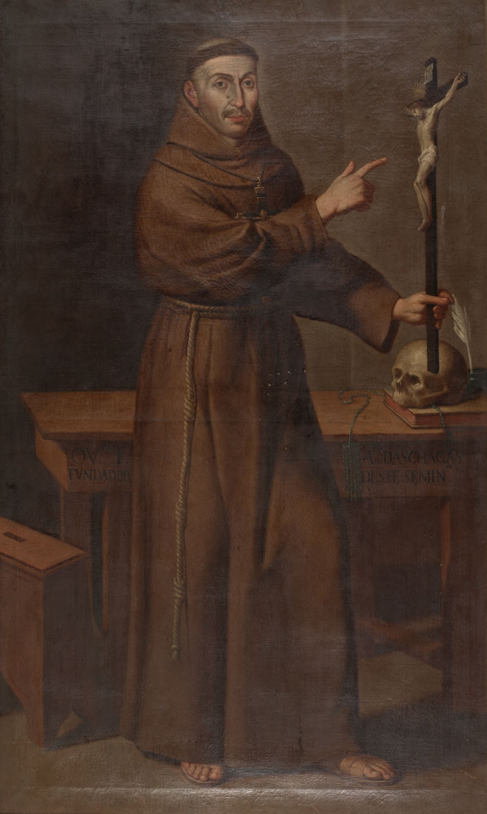 Frei António das Chagas (1631–1682), Portuguese Franciscan friar, known for his poetry.